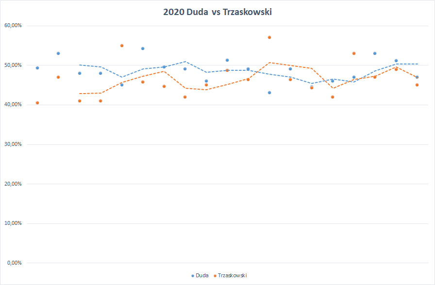 AAAAAAAAAAA1